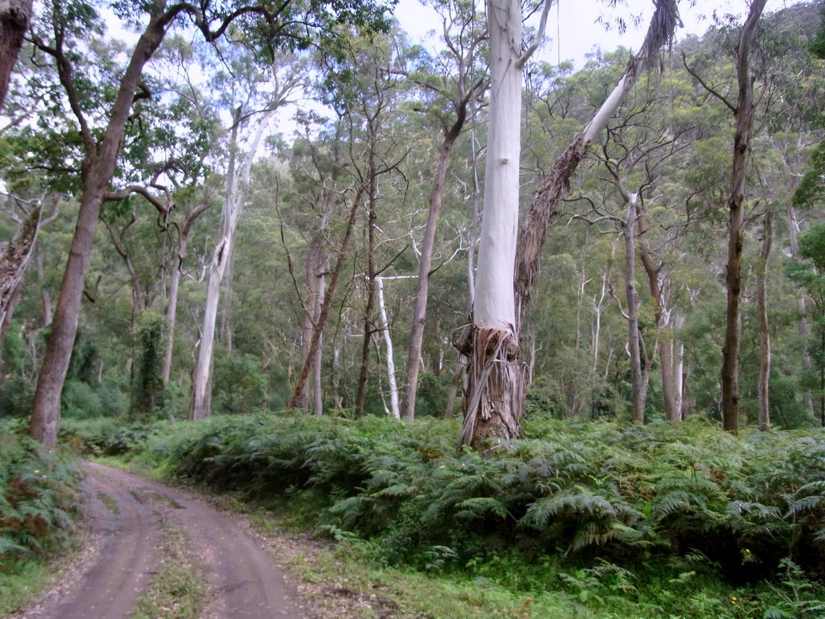 taller forest at lower altitudes; Wadbilliga National Park, Australia